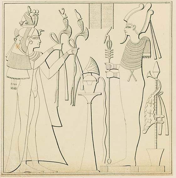 One of Ramesses III's queens from the tomb of his son Prehirwenemef.